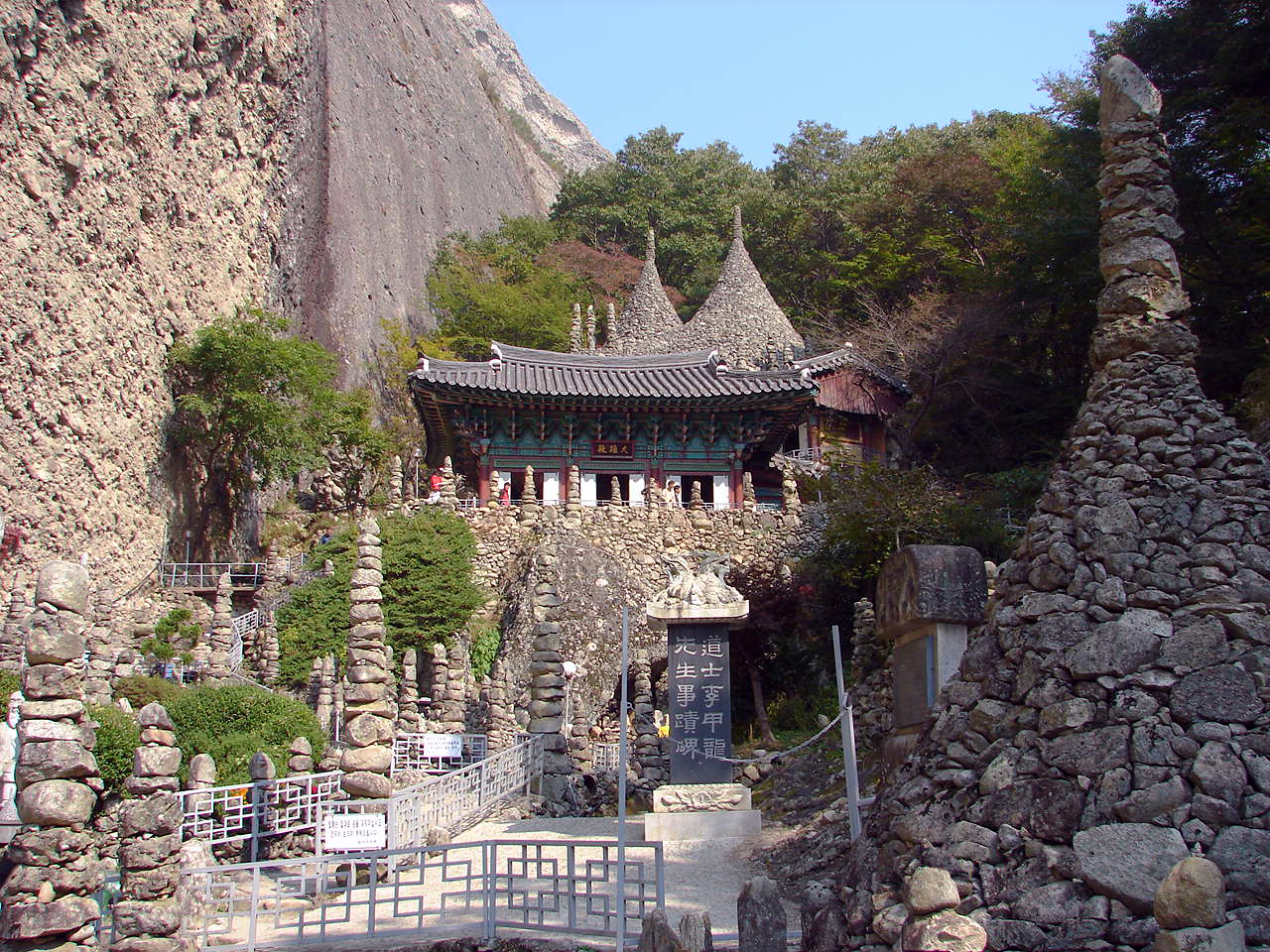 Tapsa (Buddhist Temple) and the Stone Pagodas of Maisan (Hourse Ear Mountain) in Jinan County, North Jeolla Province, South Korea.